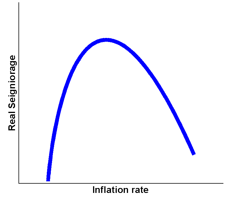 Seigniorage/Inflation Laffer Curve